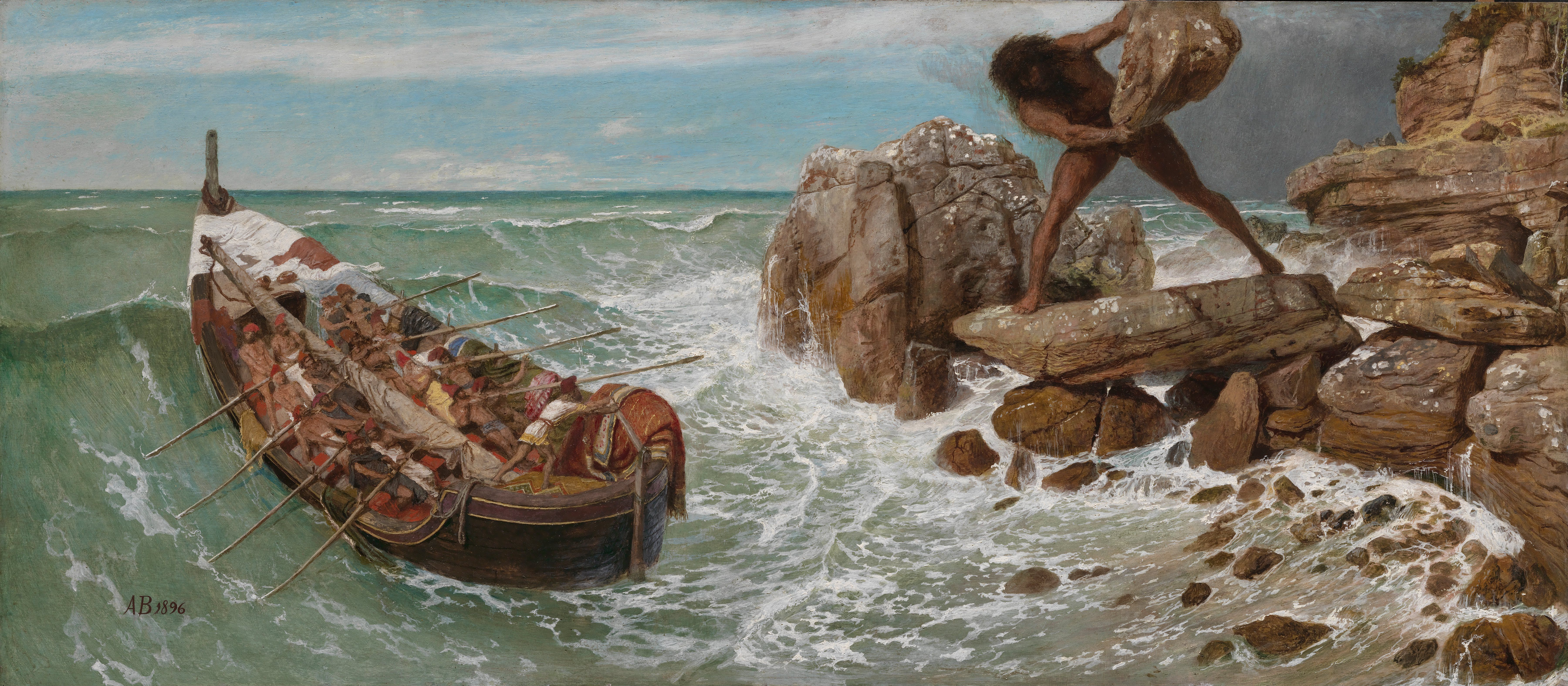 Böcklin’s original training as a landscape painter shines through in this unconventional interpretation of an episode from the ancient Greek epic poem the Odyssey. Crashing waves meet jagged rocks in a spray and scurry of foam. Escaping from the island of the Cyclopes—one-eyed, ill-tempered giants—the hero Odysseus calls back to the shore, taunting the Cyclops Polyphemus, who heaves a boulder after the boat. Unlike Academic colleagues who treated ancient mythology with reverence and solemnity, Böcklin often played up strange, grotesque, and even ridiculous elements of these stories, conjuring a pre-Classical world governed by violence and lust.